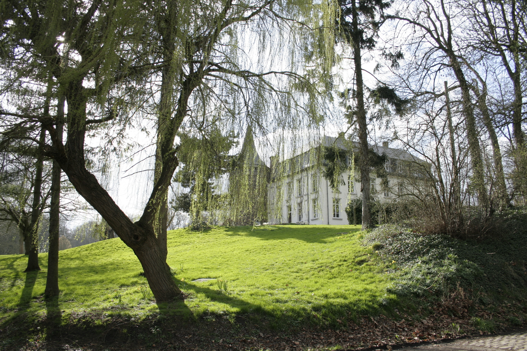 Harveng (Belgium), the Harveng castle (XVIIIth century).